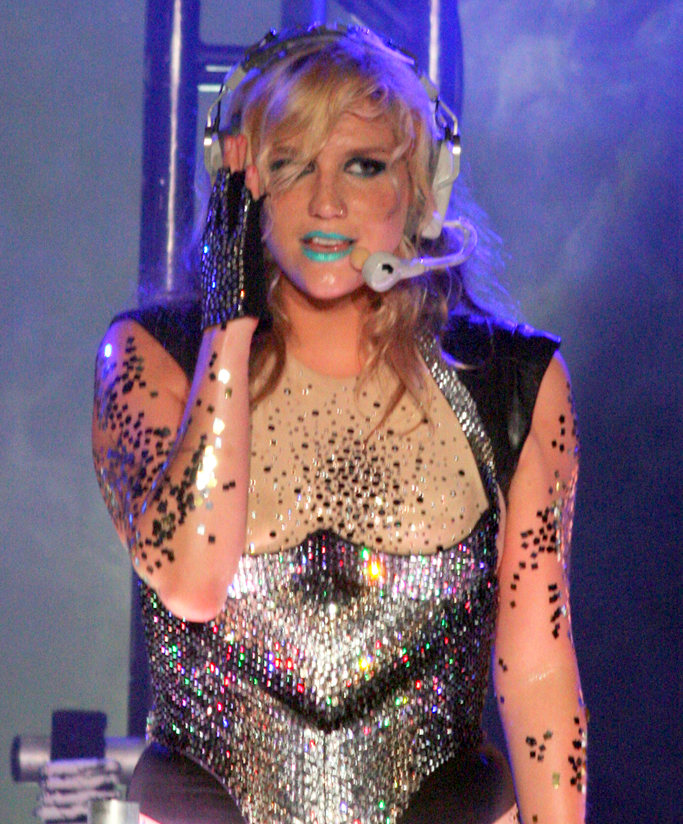 Kesha-Hordern Pavilion 2011.